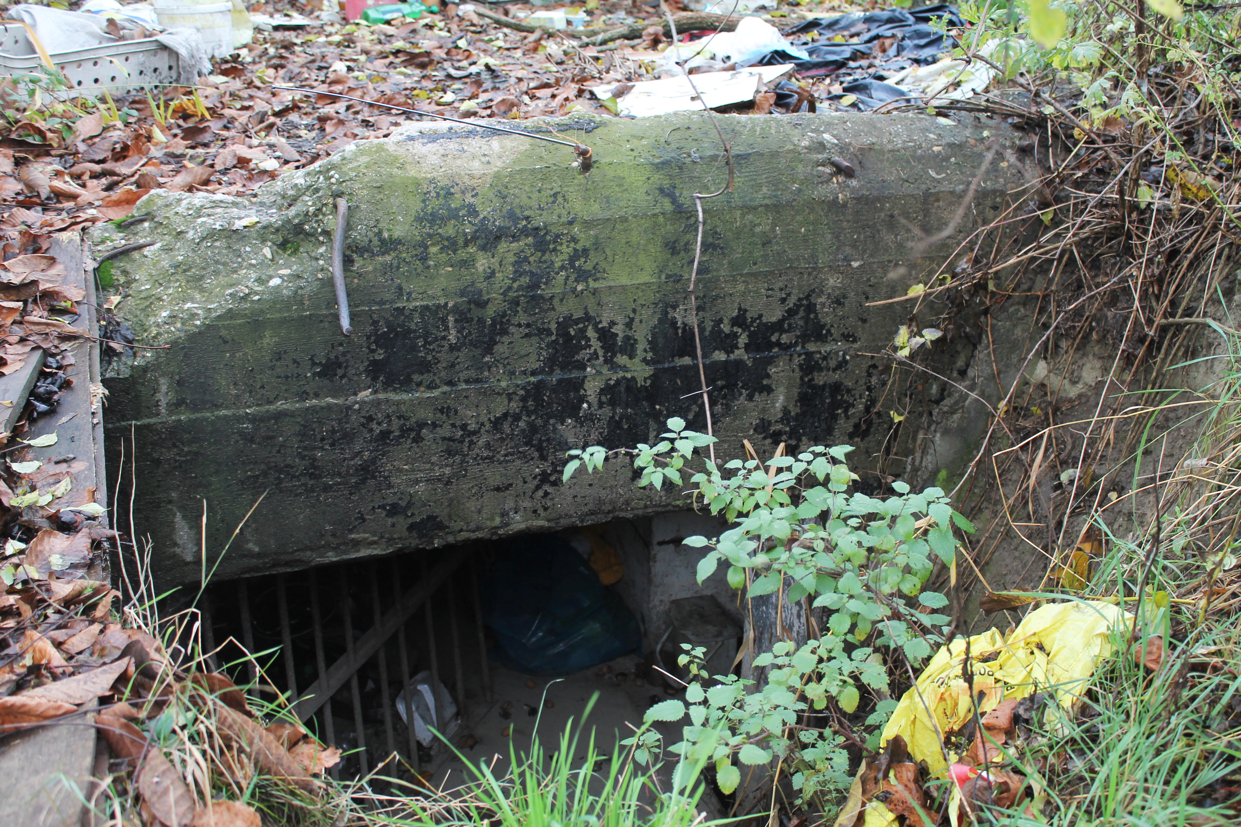 B-S II light pillbox, Bratislava, Slovakia